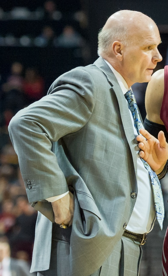 Saint Joseph's University men's basketball head coach Phil Martelli during the Atlantic 10 championship game at Barclays Center in Brooklyn, N.Y. on Mar. 12, 2016.